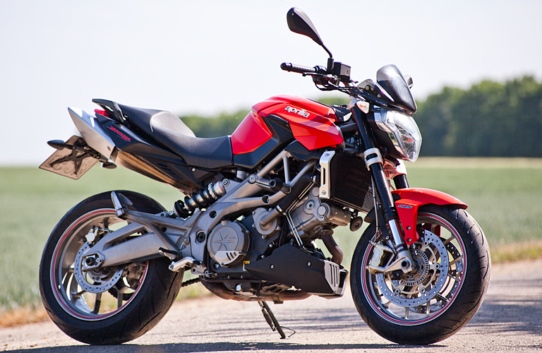 Aprilia Shiver SL750 ABS